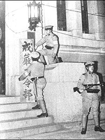 Soldiers setting up marshall law headquaters in Akasaka during the February 26 Incident.